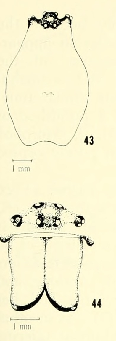 Title: Bulletin of the Museum of Comparative Zoology at Harvard College Year: 1967-1968 (1960s) Authors: Harvard University. Museum of Comparative Zoology Subjects: Zoology Publisher: Cambridge, Mass. : The Museum Text Appearing Before Image: Gea and Argiope Spiders • Levi 331 Text Appearing After Image: Argiope aurantia Lucas. Figs. 43-45. Female carapace and chelicerae. 43. Dorsal. 44. Anterior 45. Lateral. Figs. 46-48. Left female chelicera. 46. Anterio-mesal. 47. Lateral. 48. Ventral. Figs. 49-50. Epigynum. 49. Dorsal view. 50. Ventral view. Figs. 51-52. Female abdomen. 51. Ventral. 52. Dorsal. Fig. 53. Male eyes, chelicerae and pal- pus. Fig. 54. Male, dorsal view. Fig. 55. Tips of a male embolus retrieved from female epigynum. Fig. 56-57. Left palpus. 56. Mesal. 57. Ectal.